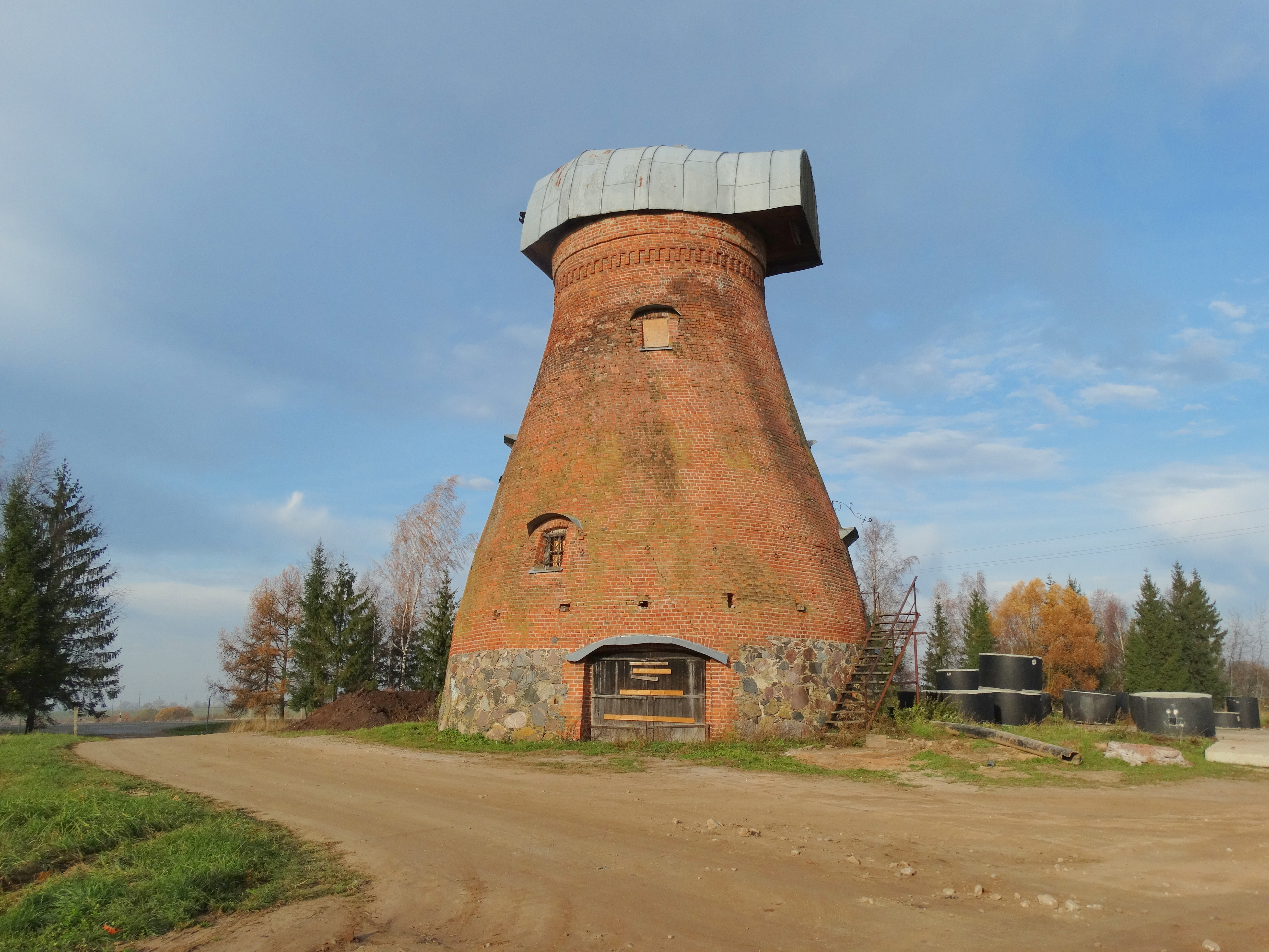 Windmill, Pumpėnai, Pasvalys district, Lithuania